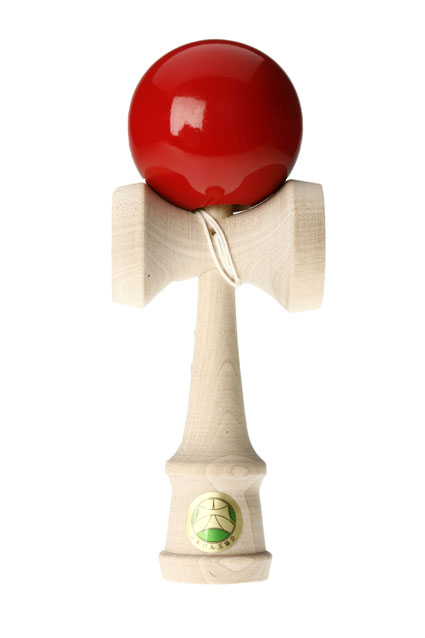 This is a Kendama TK 16 Master red